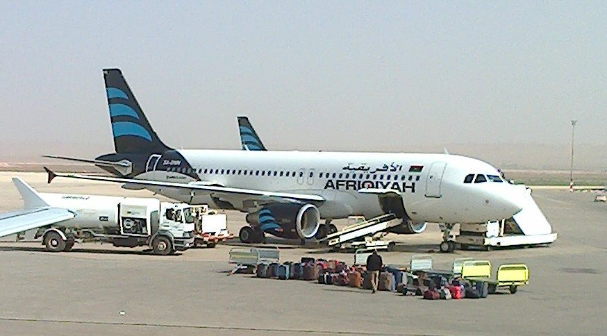 An airplane of Afriqiyah airways.